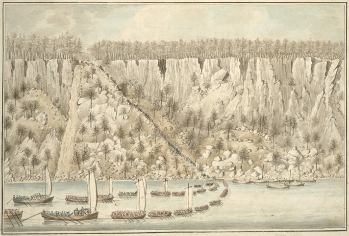 Landing of the British troops, led by General Cornwallis, at the base of the Palisades near Fort Lee, New Jersey, on the morning of November 20, 1776. After ascending the Palisades, the British troops marched on Fort Lee, resulting in the evacuation of the fort by the Continental Army and their general retreat across New Jersey. This event is known as the Battle of Fort Lee.